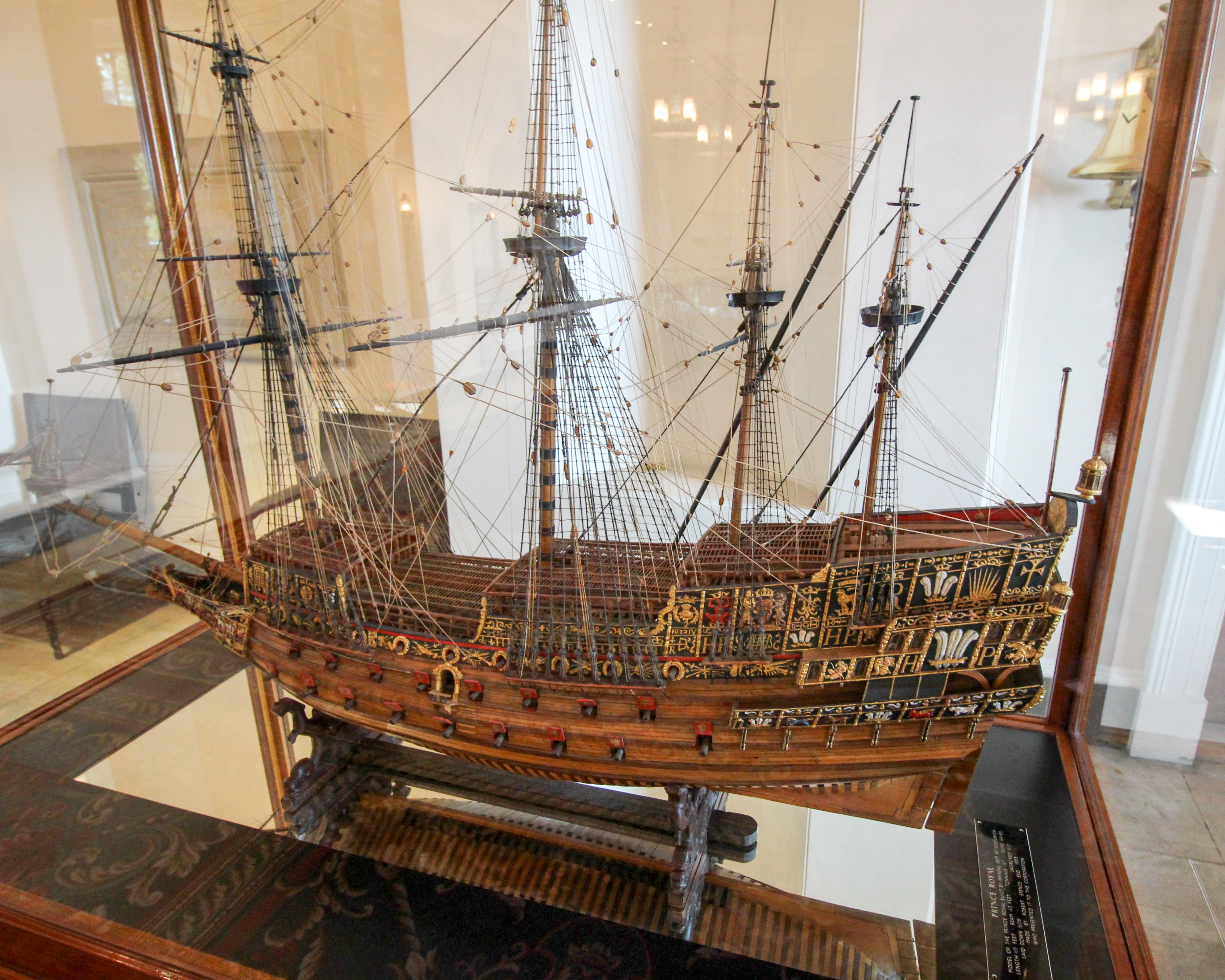 Model of HMS Prince Royal in the Entrance Hall of Trinity House building, London